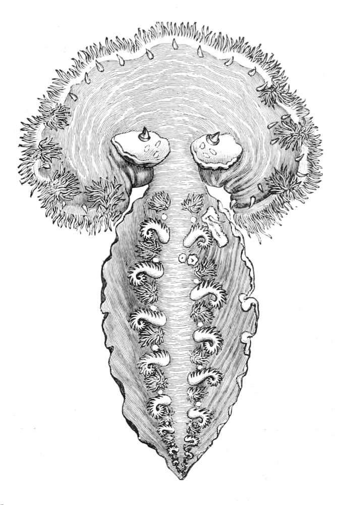 drawing of Tethys fimbria. Synonym: Tethys leporina.[1] ↑ accessed 29 December 2010.